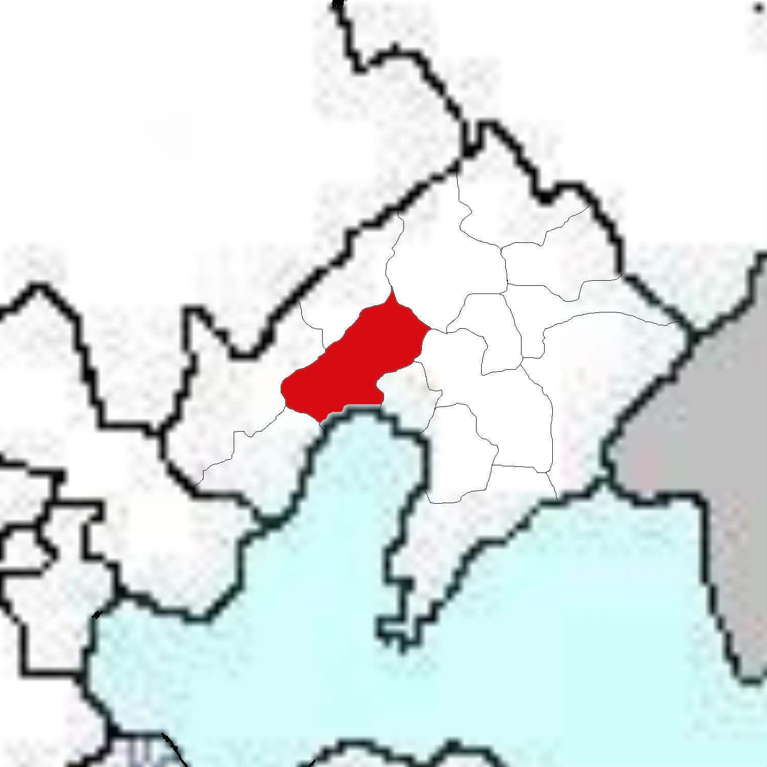 Maps of Liaoning Province, China